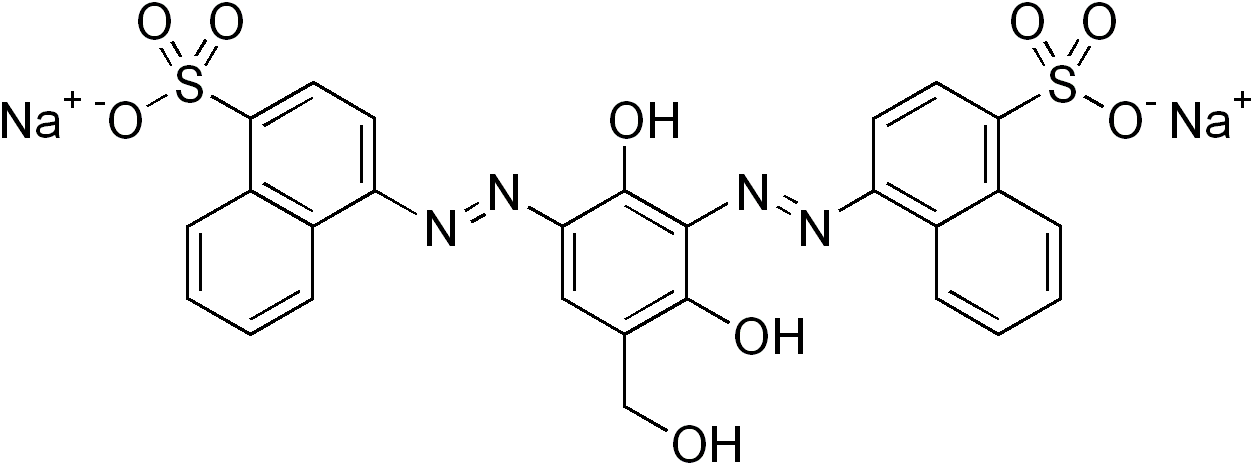 chemical structure of Brown HT food coloring